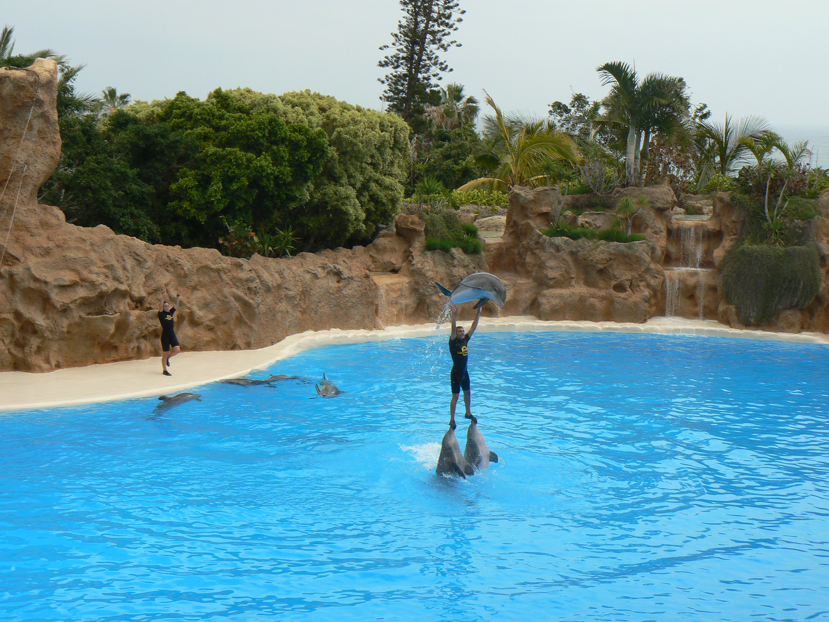 Dolphin Show in Loro Parque, Puerto de la Cruz, Tenerife